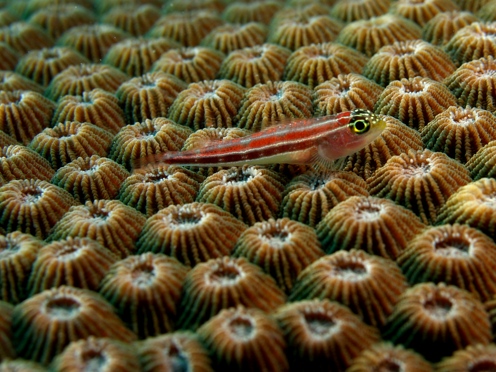 Helcogramma striata (Neon triplefin) on Diploastrea heliopora (Hard coral)